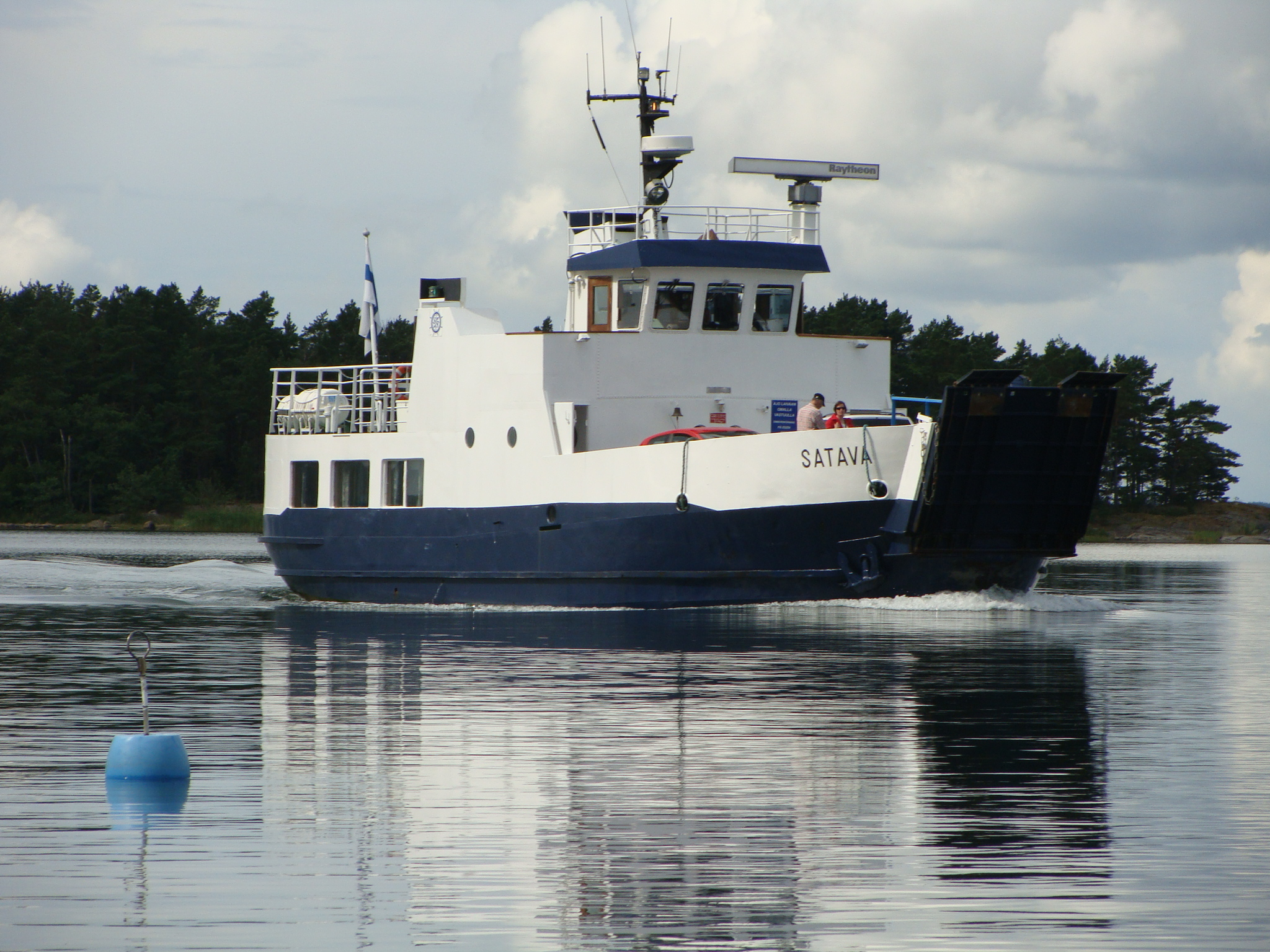 Archipelago ferry M/S Satava approaching Innamo island in the Archipelago Sea in Finland.